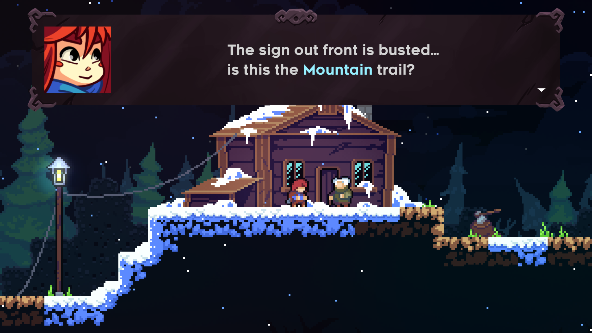 Screenshot of the 2018 video game Celeste